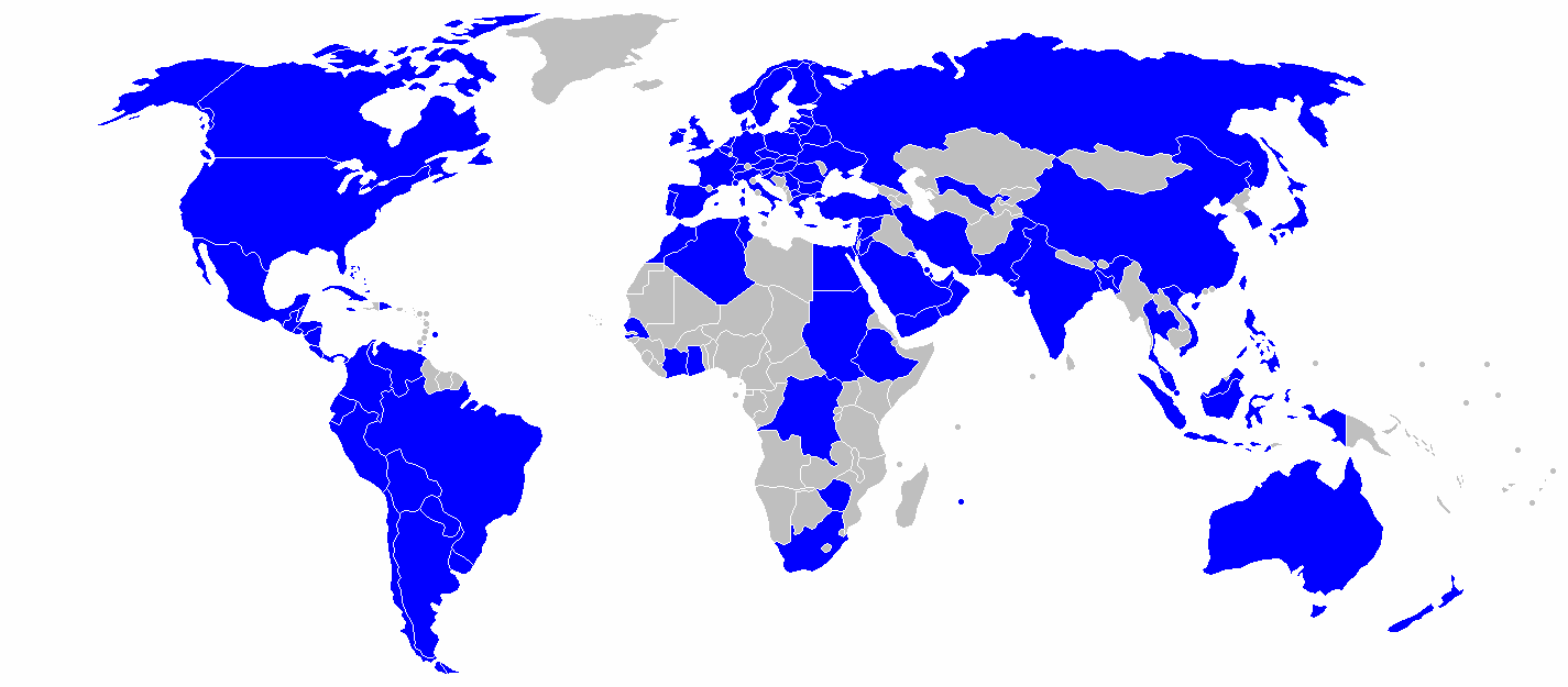 \Merck global locations